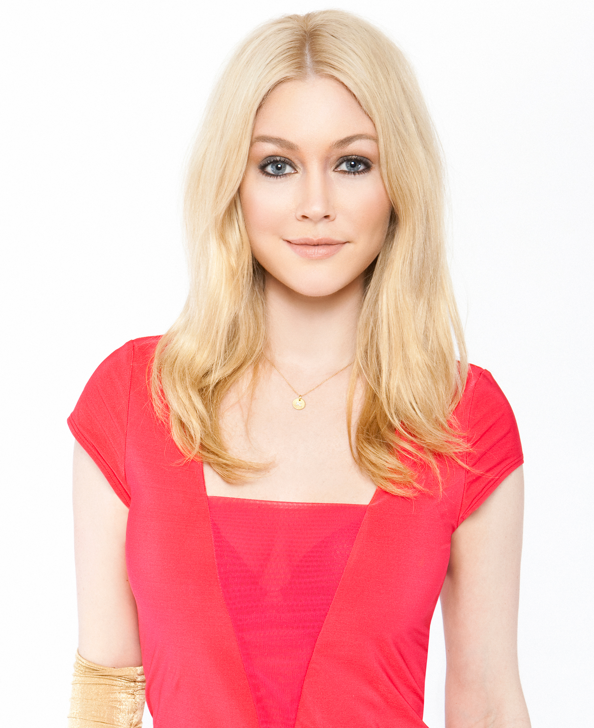 Kelly Carrington photo taken during her recent look book shoot for her business Éclairée.